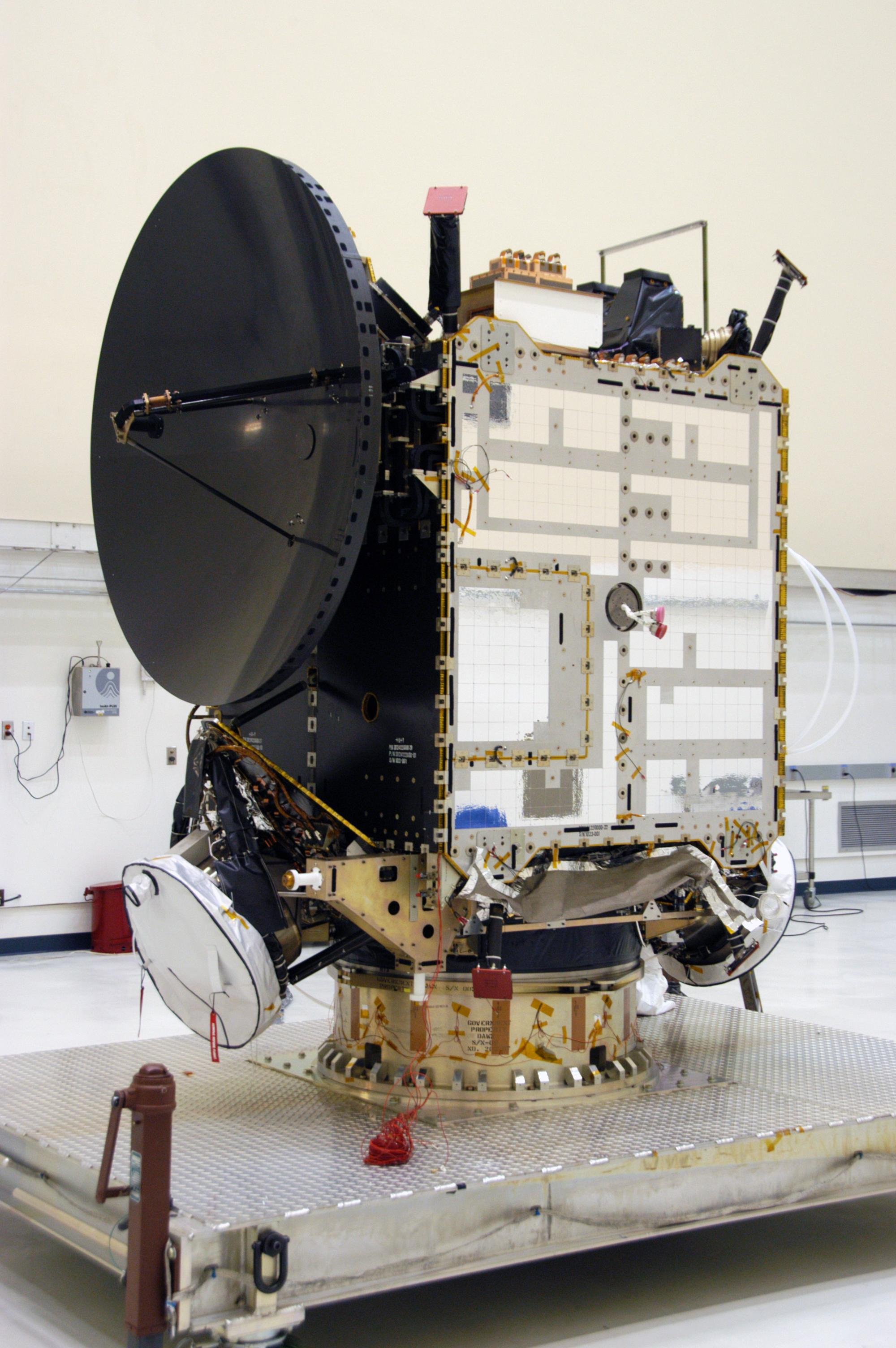 The Dawn spacecraft is seen here in clean room C of Astrotech's Payload Processing Facility. In the clean room, the spacecraft will undergo further processing. Dawn's mission is to explore two of the asteroid belt's most intriguing and dissimilar occupants: asteroid Vesta and the dwarf planet Ceres.